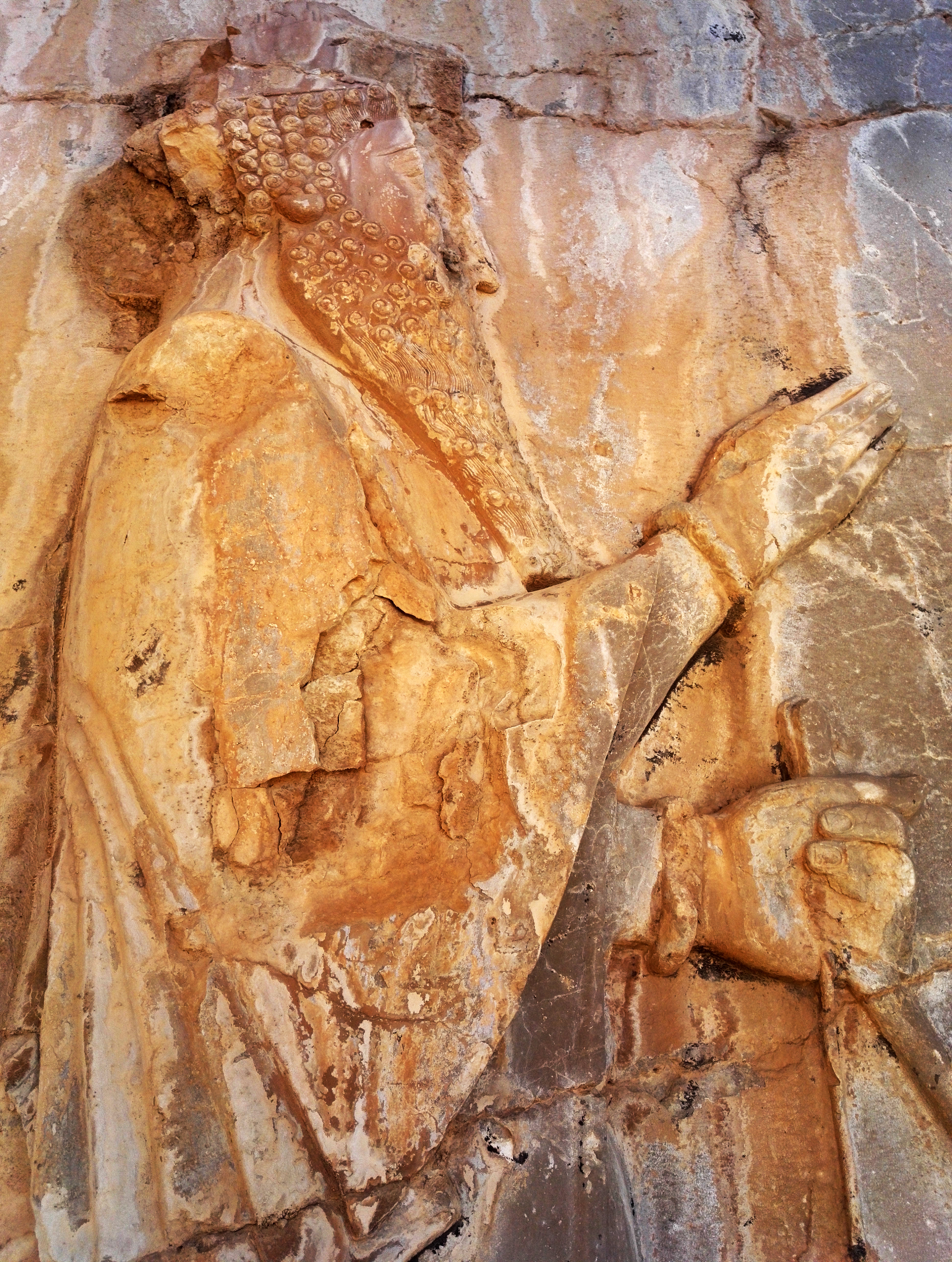 TOMD OF XERXES;KING;NAGSH-E-ROSTAM;nima boroumand;Rock relief of Xerxe;نيما برومند